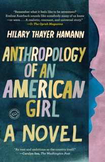 Book cover of Anthropology of an American Girl (paperback version), written by Hilary Thayer Hamann